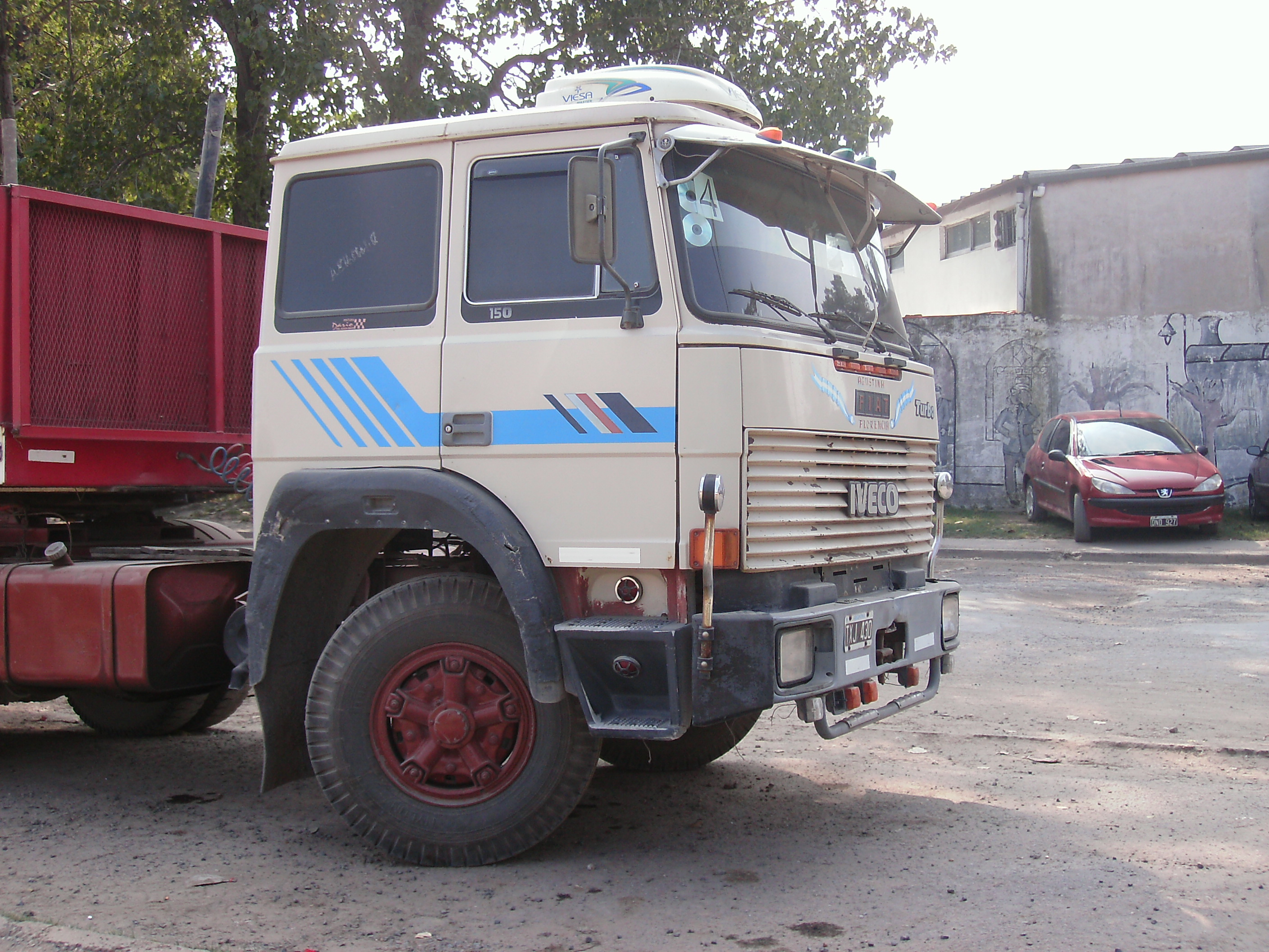 Iveco Fiat Turbo 150.